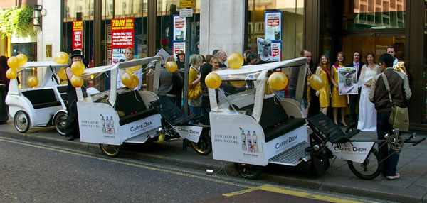 Eco Chariots pedicab fleet in London Cr8ive Bunny